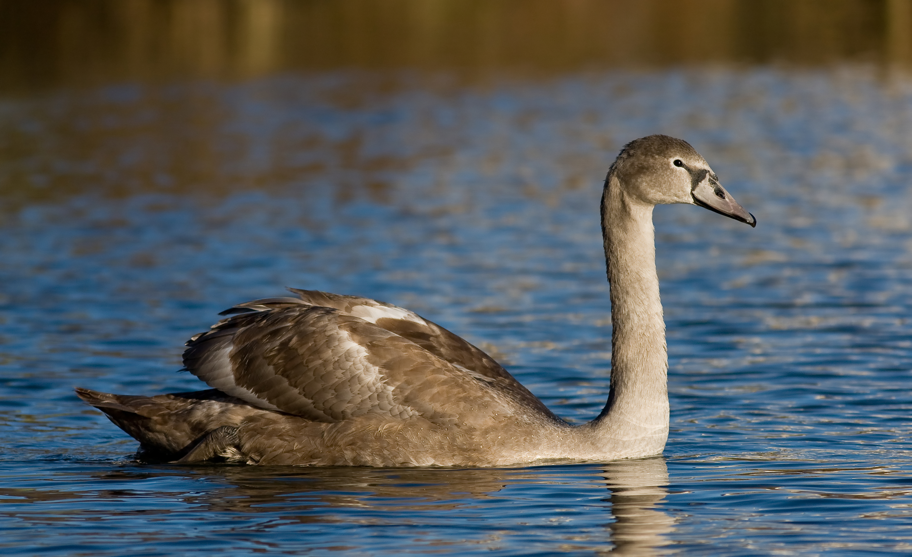 Mute Swan (Cygnus olor), juvenile. Photo taken near Vanhankaupunginlahti, Finland. The location is listed in Ramsar "List of Wetlands of International Importance". Although not evident from the picture, this image was taken on the day of first snow. Note the dark and somewhat curious colours of this adolscent bird, which will later turn bright white with orange beak.